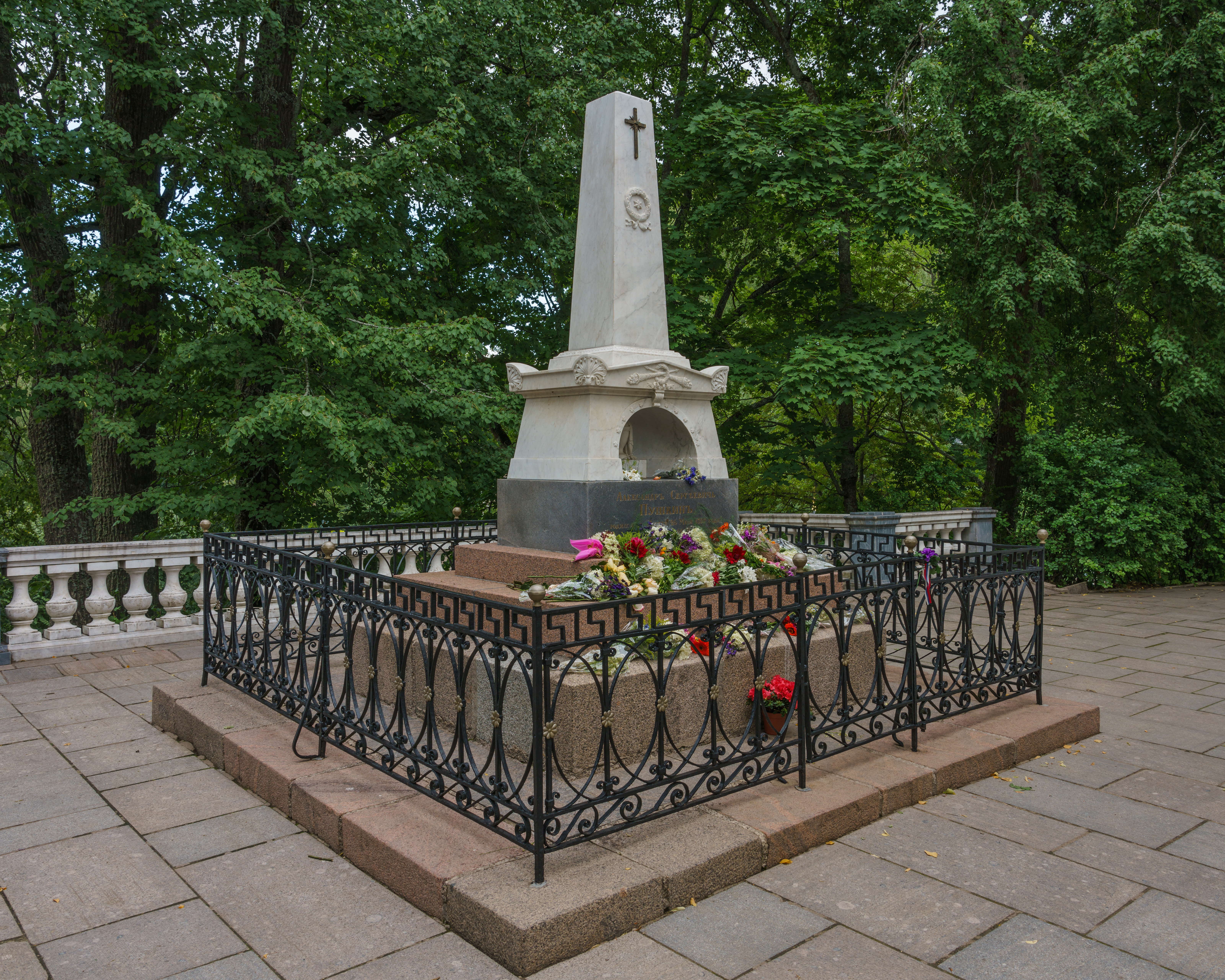 Grave of Alexander Pushkin in Svyatogorsky Monastery in Pushkinskiye Gory, Pskov Oblast, Russia.